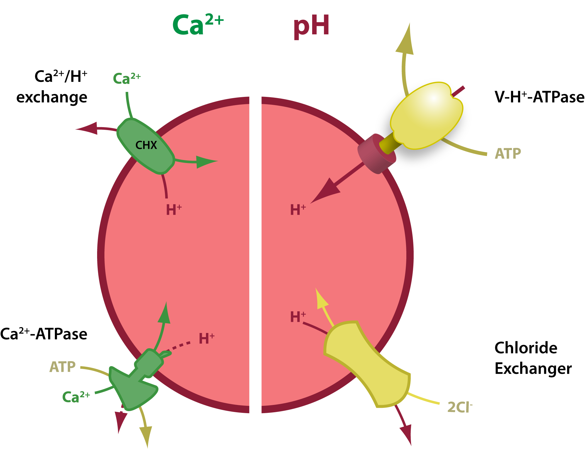 Speculative Ca2+ uptake mechanisms into acidic vesicles.